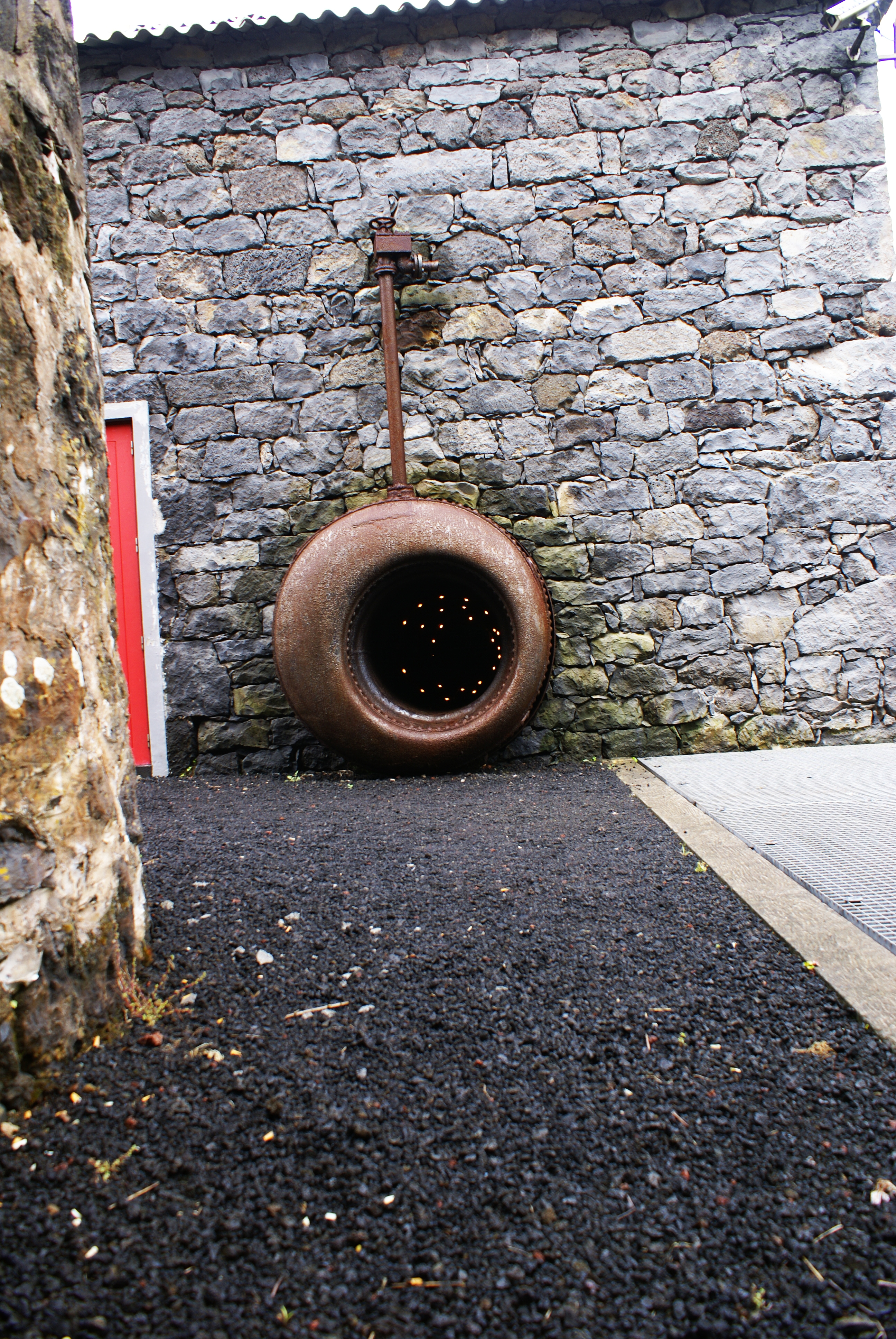 Centro de Artes e Ciências do Mar (Whaling Museum), detail of the former whale oil factory, Lajes do Pico, Pico (Azores), Portugal